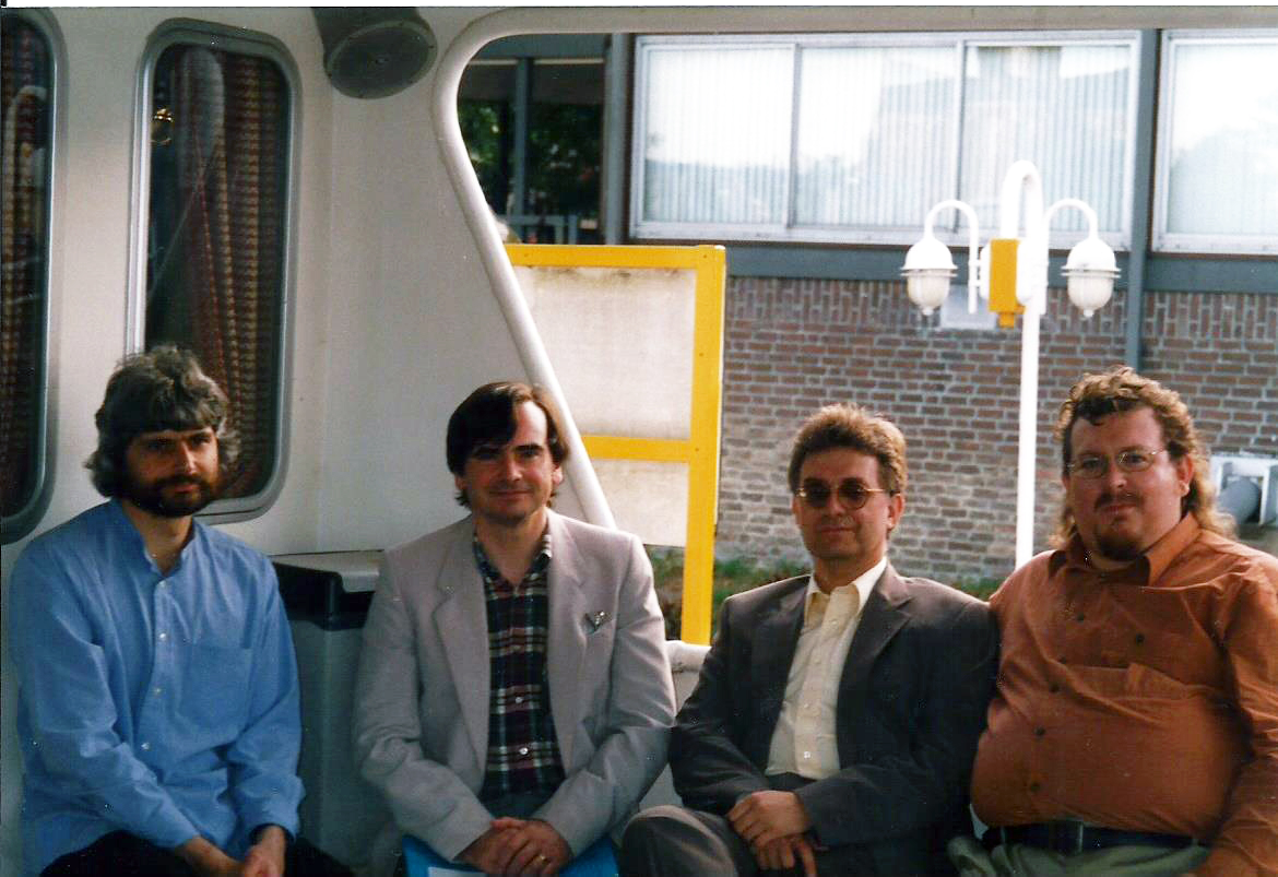 Wayne Spencer, Michael Heap, Chris French and Mark O'Leary on a boat trip in Maastricht in 1999